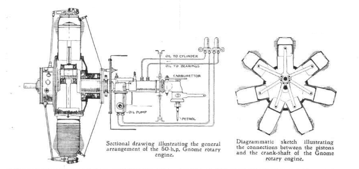 Section views of Gnome rotary engine